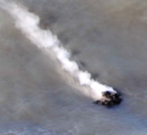 Lava balloons are bubbles formed by lava and filled with gas that float on the water surface. Examples photographed here were observed during the 2011 eruption of El Hierro, Canary Islands